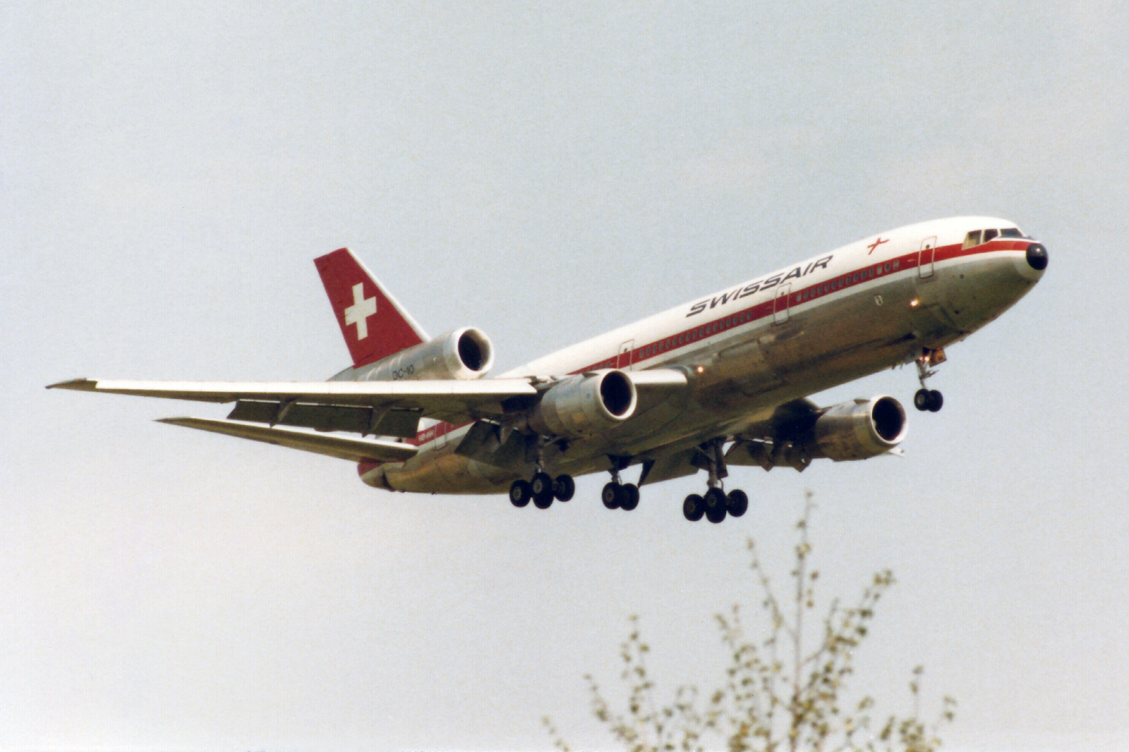 Zürich (- Kloten) (ZRH / LSZH) Switzerland 5.1981 First Flight 12.1974 Del.2.1975 to Swissair (HB-IHH / picture) Northwest Airlines (N225NW) ATA Airlines (N706TZ) World Airways (N706TZ)